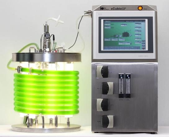 This laboratory photobioreactor has been developed for high-end research with microalgae and other phototrophic organisms by IGV Biotech together with BBI Biotech. It is an efficient combination of a standard univessel surrounded by a glass tube.